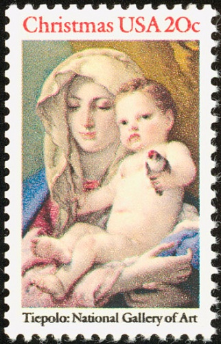 United States Christmas stamp 1982 Madonna of the Goldfinch, Giovanni Battista Tiepolo c. 1760.